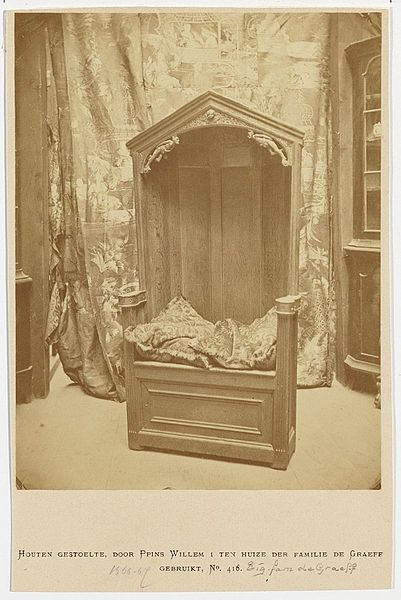 Hood chair